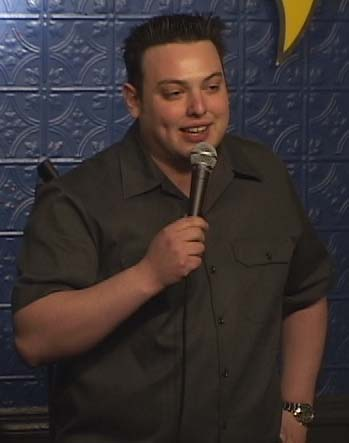 This is a picture of me, Comedian Ricardo Aleman, when I weighed 250lbs. The picture was taken by my videographer on May 1st 2004. I will be adding this to my page under the weight loss section.